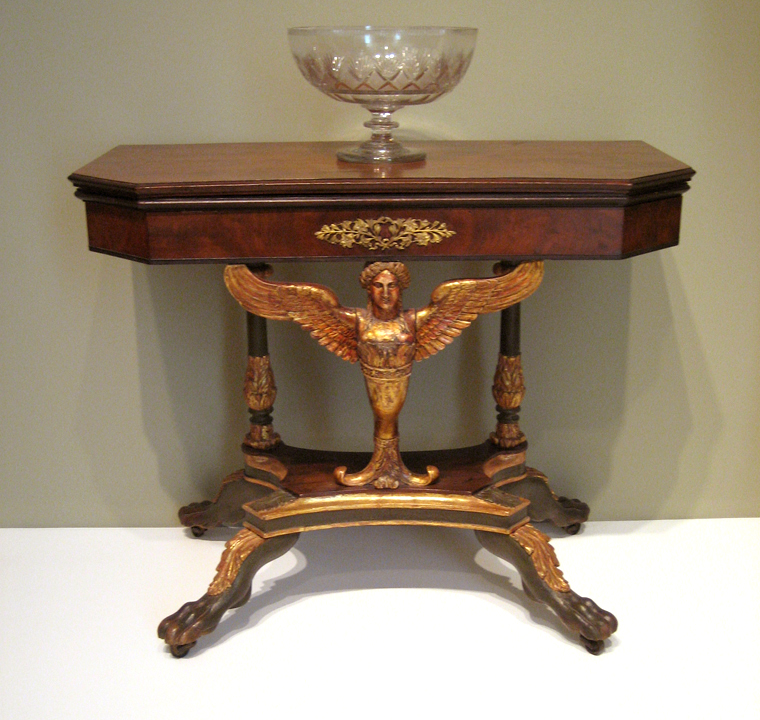 Card Table, ca. 1815